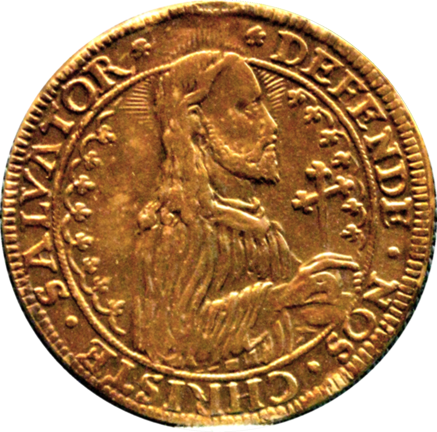 Thaler issued during siege of Danzig 1577